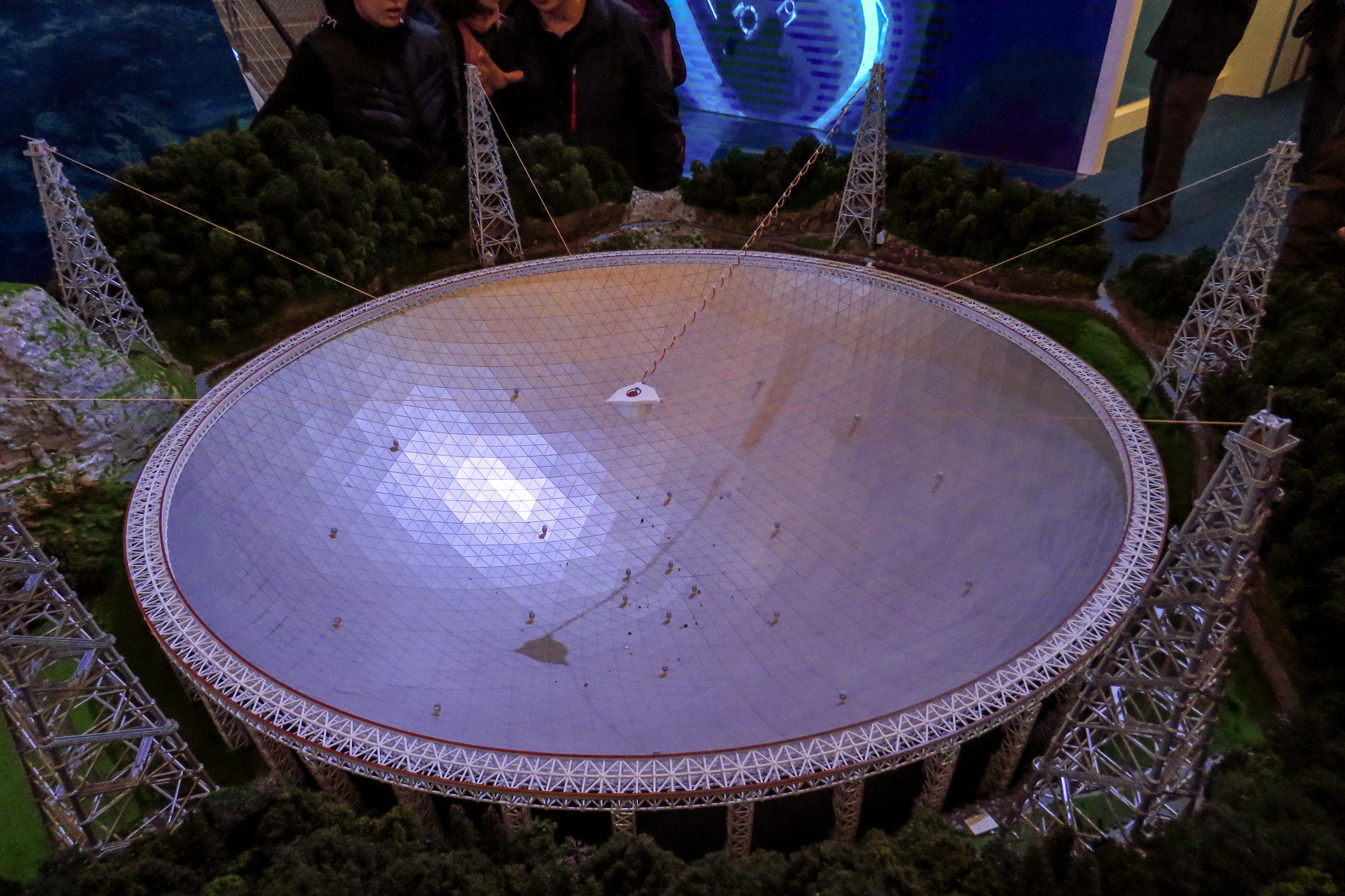 Nothing indicates the maker of this model. Hope to see the "Real Thing" someday.